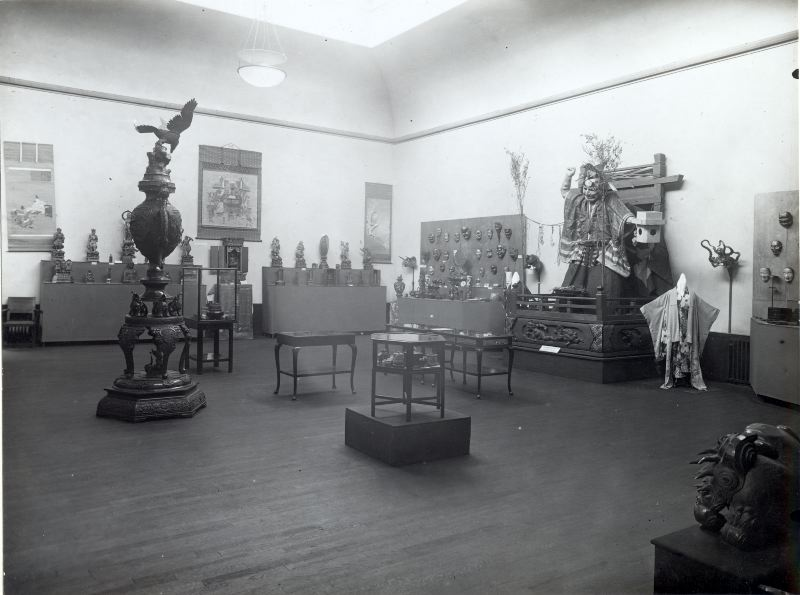 Interior from the exhibition Exotic Art and Handicraft